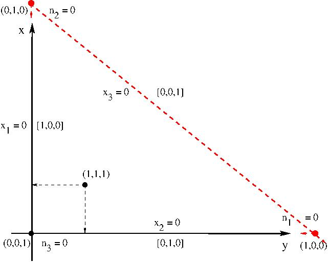 Homogenous coordinates in projective plane.